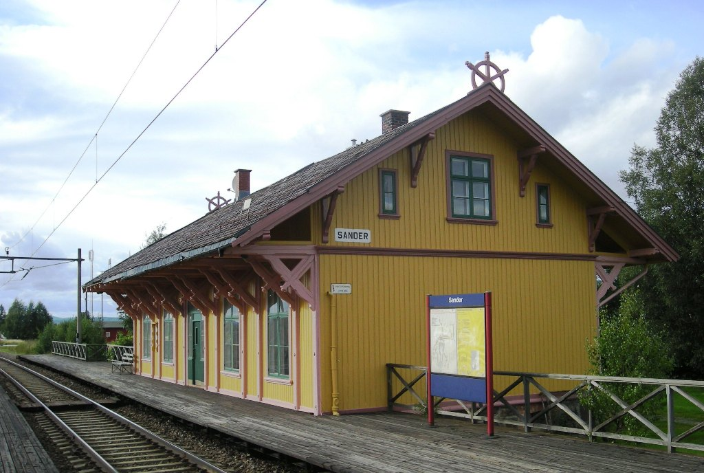 Sander station on the Kongsvinger line (Hedmark, Norway)